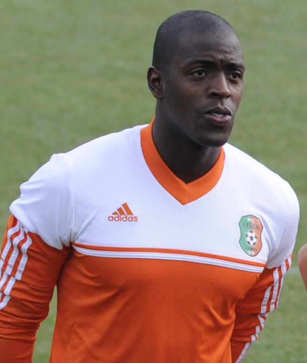 Wilmar Jordán Gil